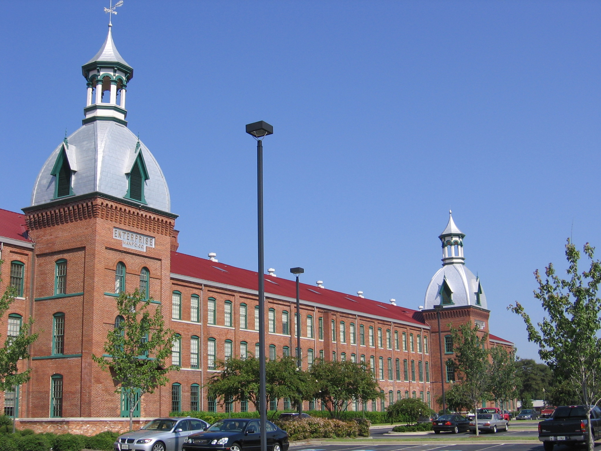 Enterprise Mill (Augusta, Georgia, USA, next to Augusta Canal) former mill, now loft apartments